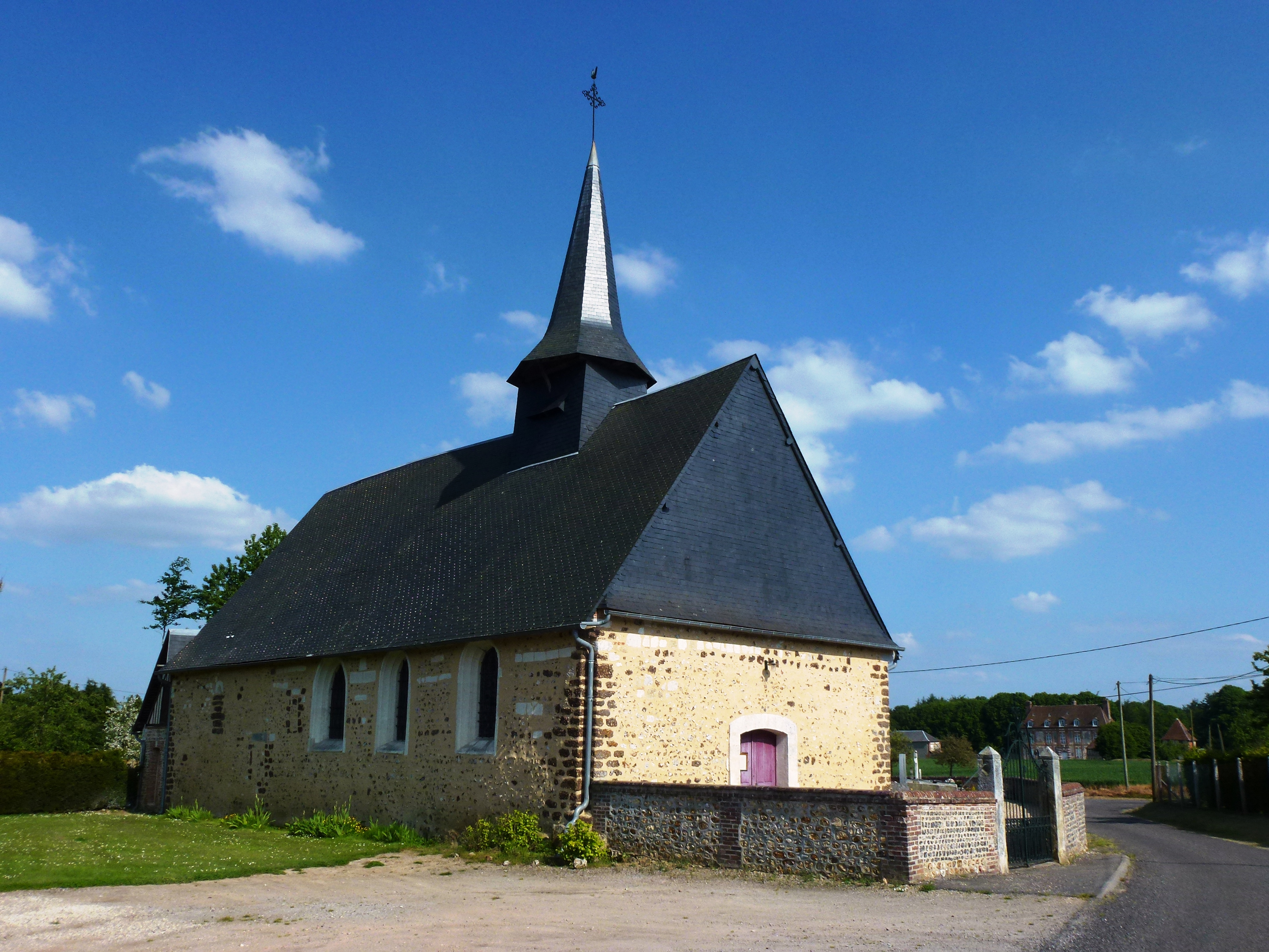 Caorches-Saint-Nicolas (Eure, Fr) église Saint-Martin - IA00018114